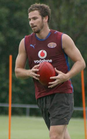 Jared Brennan at Brisbane Lions pre-season training in December 2008. Giffin Park, Coorparoo, QLD, Australia.